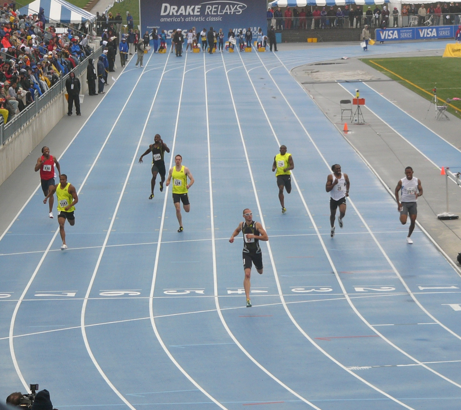 Jeremy Wariner winning the Invitational 400 m. in 45.06 sec. Drake relays 2009